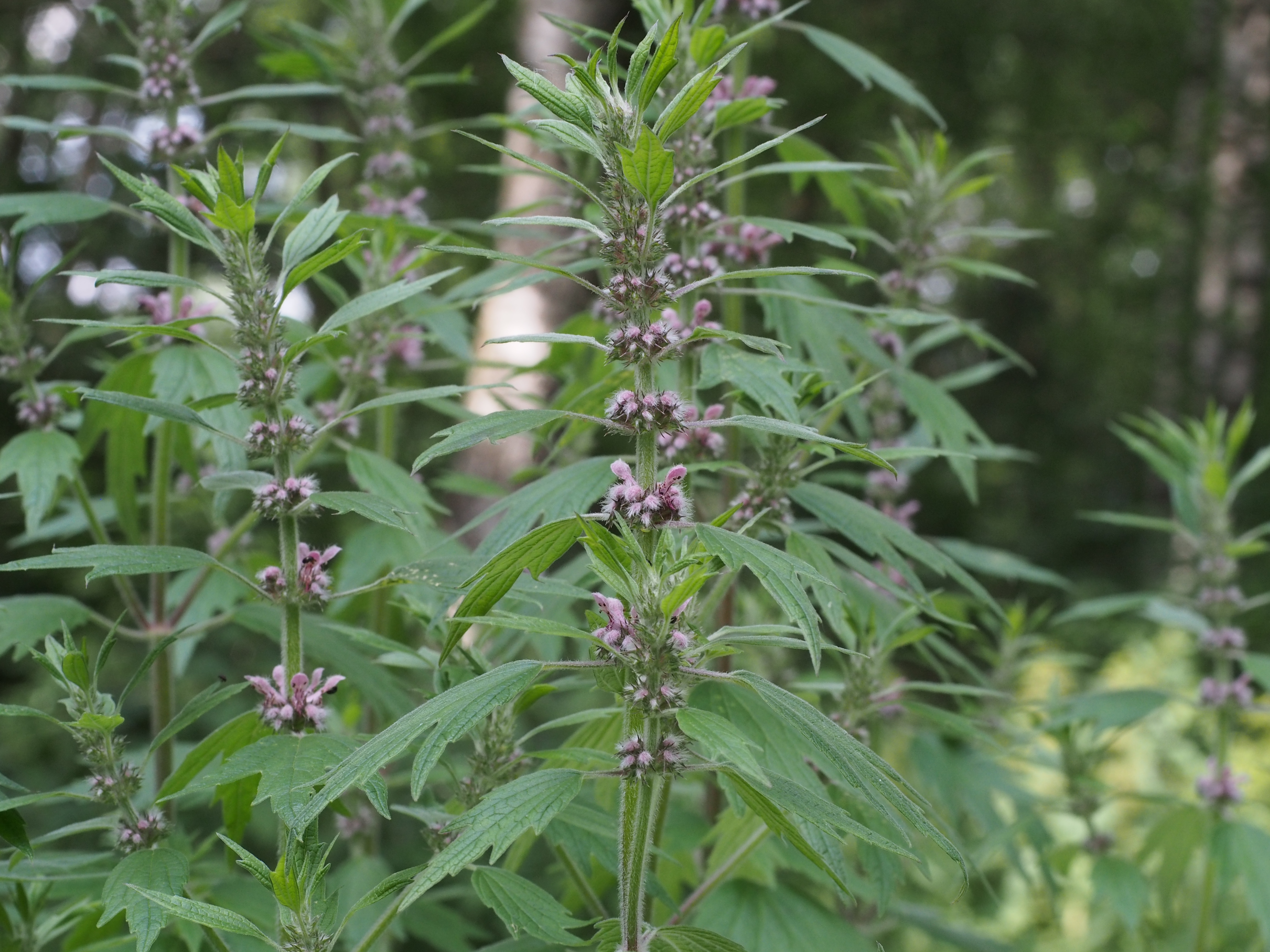 Leonurus cardiaca